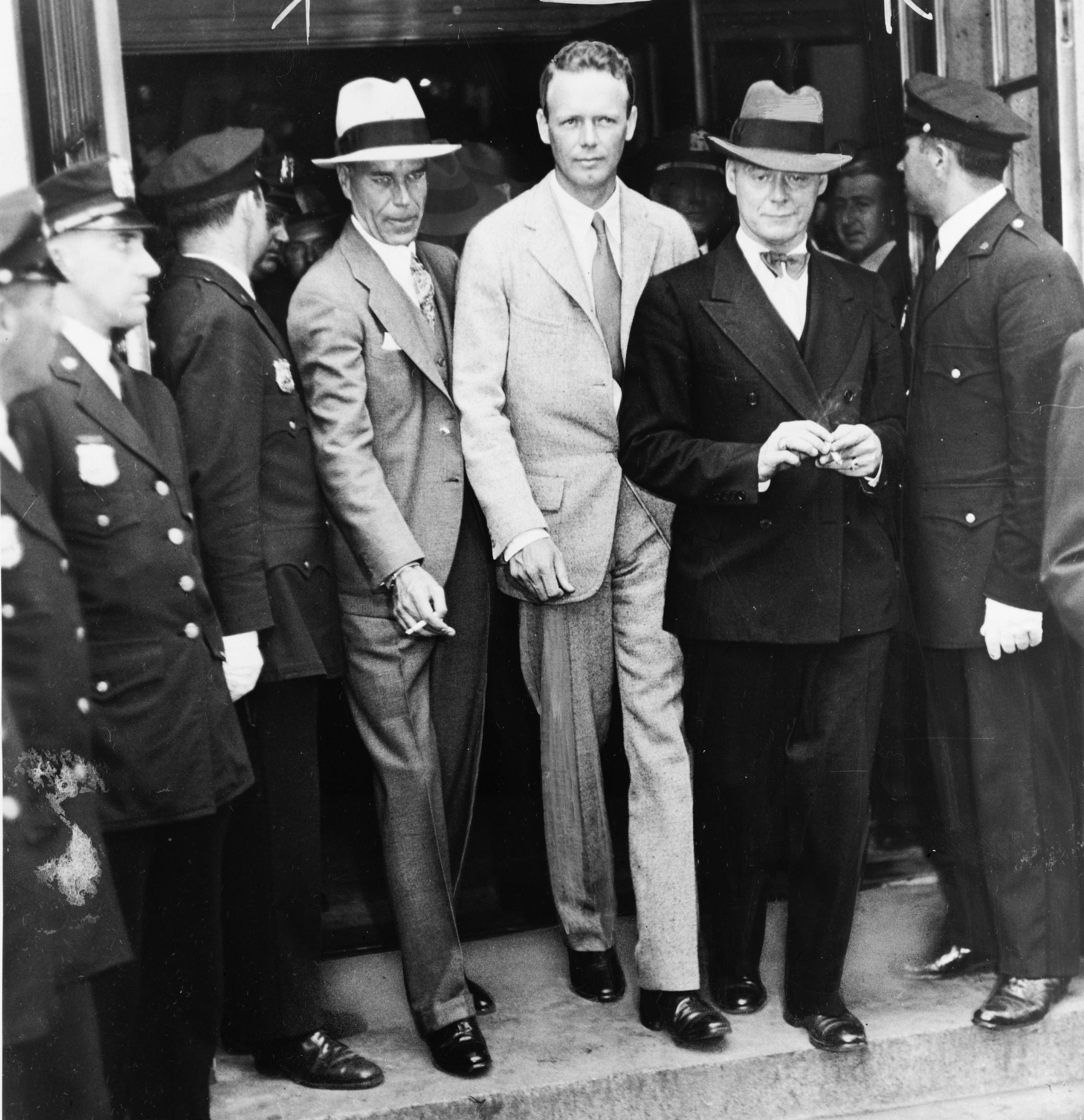 Charles A. Lindbergh after telling the grand jury his story of the payment of $50,000 ransom for his son. At the right is Colonel H. Norman Schwarzkopf, of the New Jersey State Police, who accompanied Colonel Lindbergh. Original title: After Lindbergh told story to Bronx grand jury